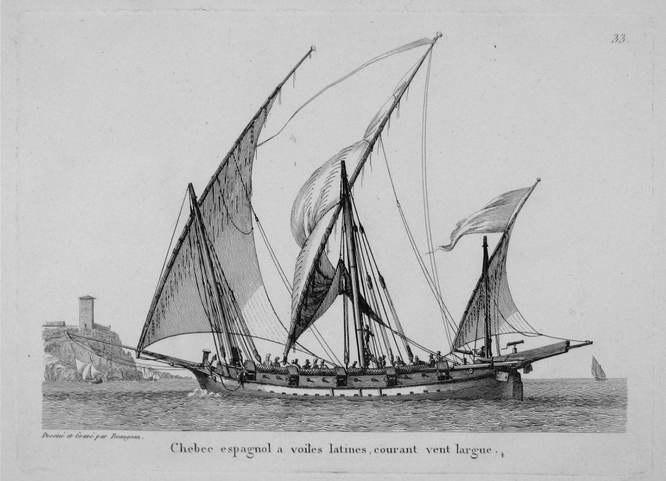 Copperplate engraving of Spanish xebec by Jean-Jérôme Baugean (1764-1830) from Collection de Toutes les Especes de Batimens de Guerre et de Batimens Marchard. Original size: 7" x 5 "